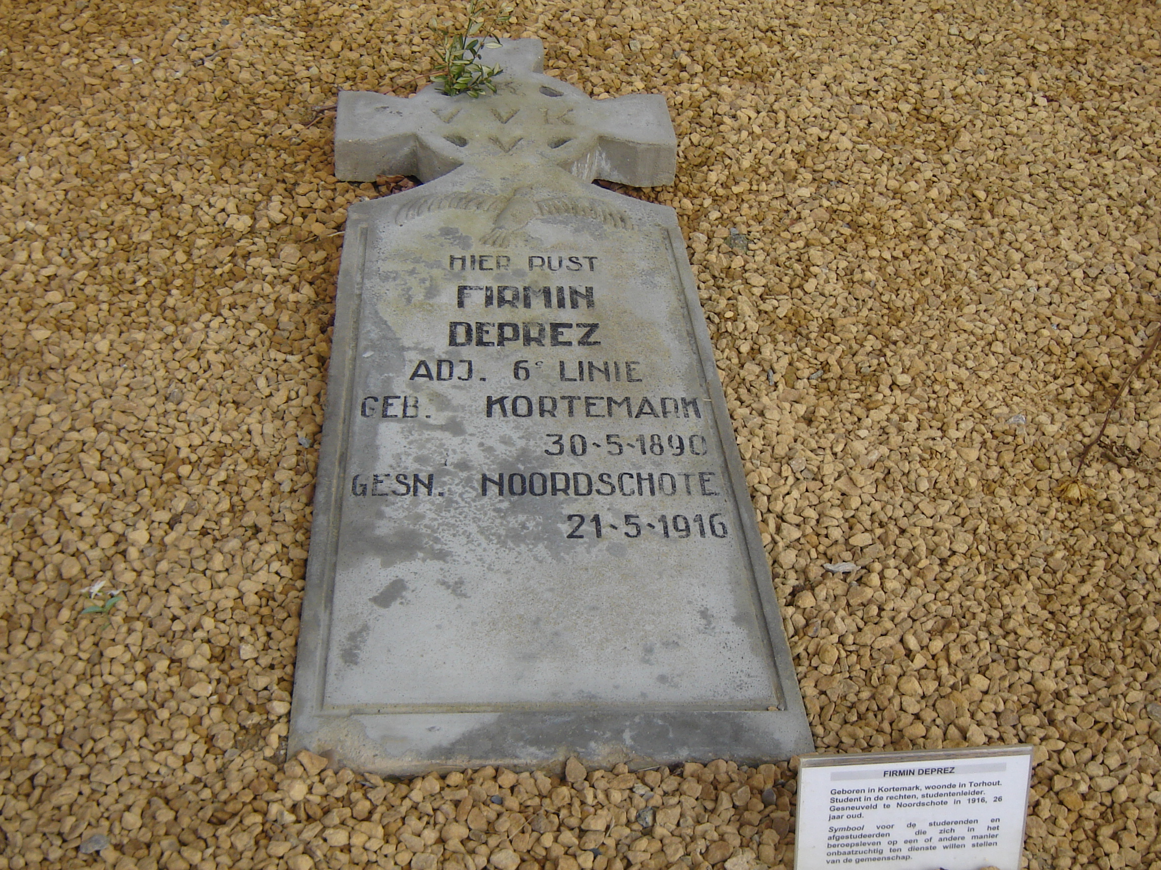 Gravestone of Firmin Deprez in the crypt of the IJzertoren in Kaaskerke. Kaaskerke, Diksmuide, West Flanders, Belgium